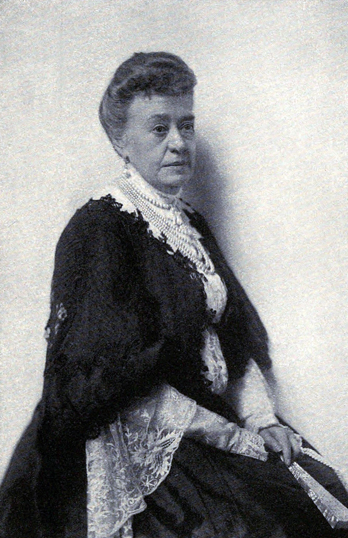 Portrait of Jane Stanford